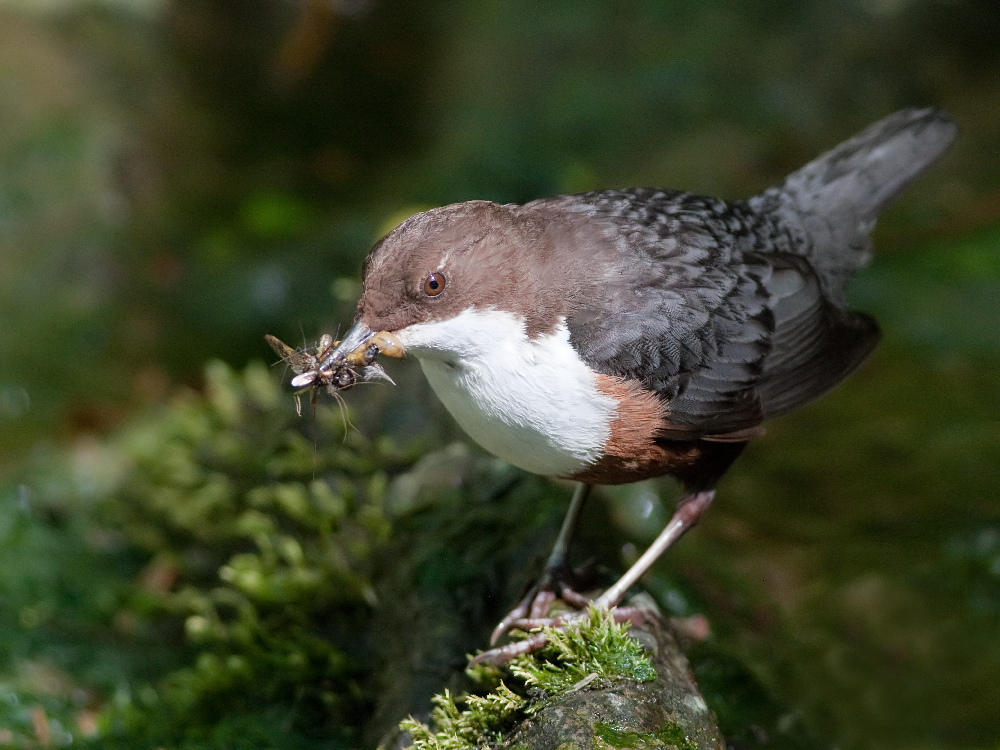 A White-throated Dipper in Kirkcudbright, Scotland.